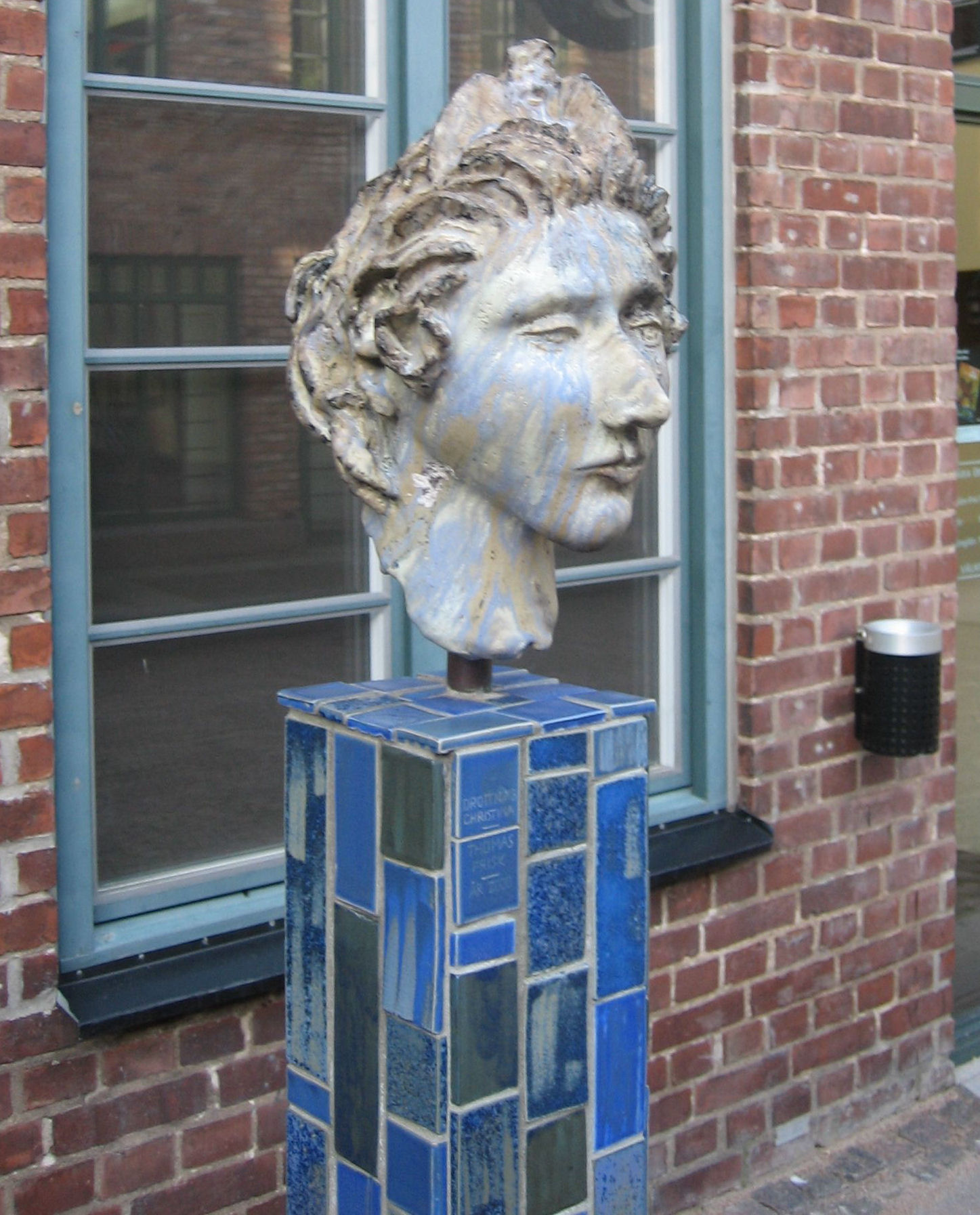 Queen Christina of Sweden by Tomas Frisk (2000) in Halmstad Sweden.